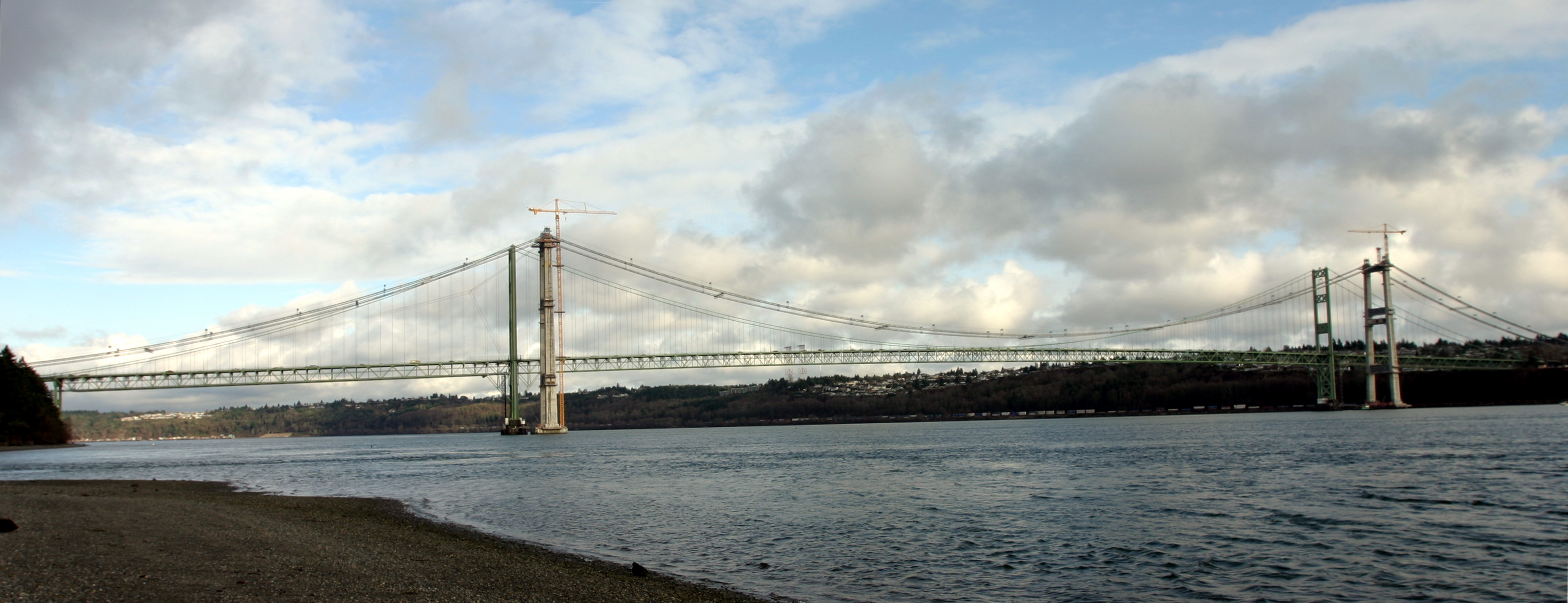 The Tacoma Narrows Bridge seen from the south.